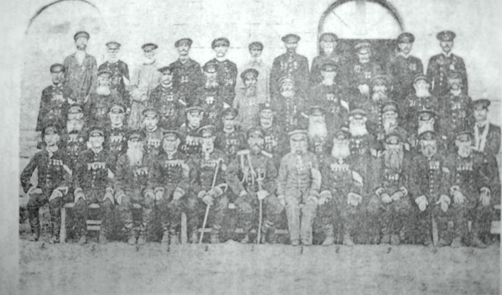 Manglisi Veterans.